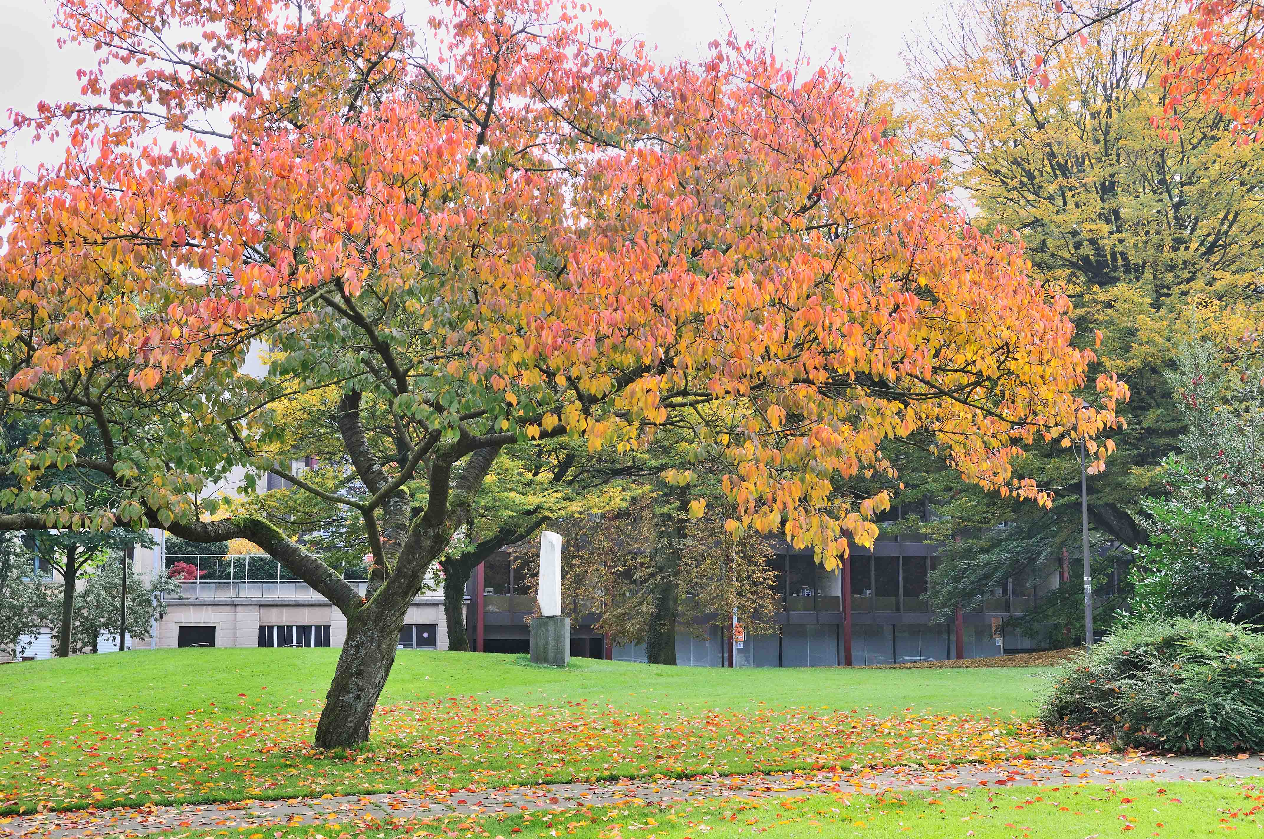 Luxembourg City: Joseph-Kutter-Monument in Pescatore-Park.